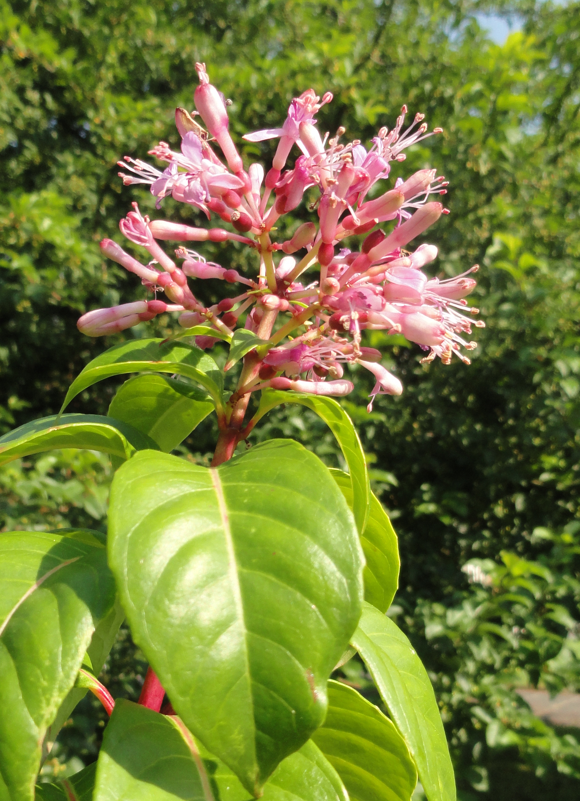 Botanical specimen in the Botanischer Garten, Frankfurt am Main, Germany.